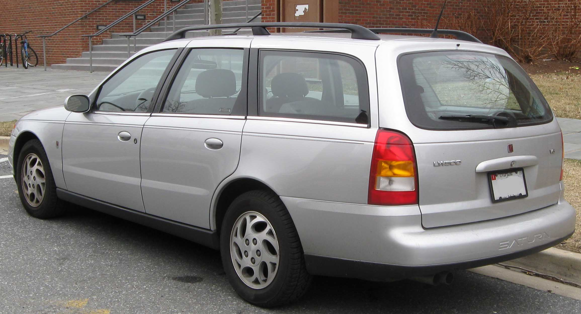 2000-2002 Saturn LW300 photographed in College Park, Maryland, USA.